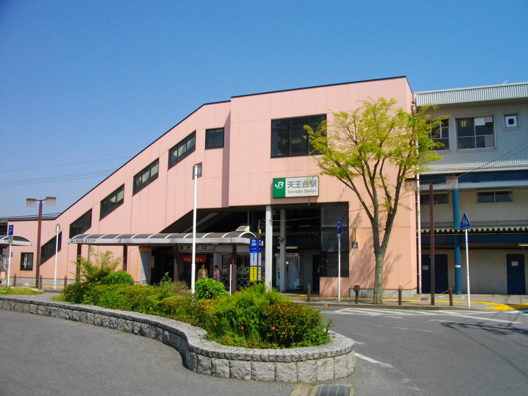 Tennodai Station South Exit